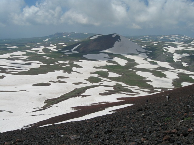 Ajdahak, Armenia